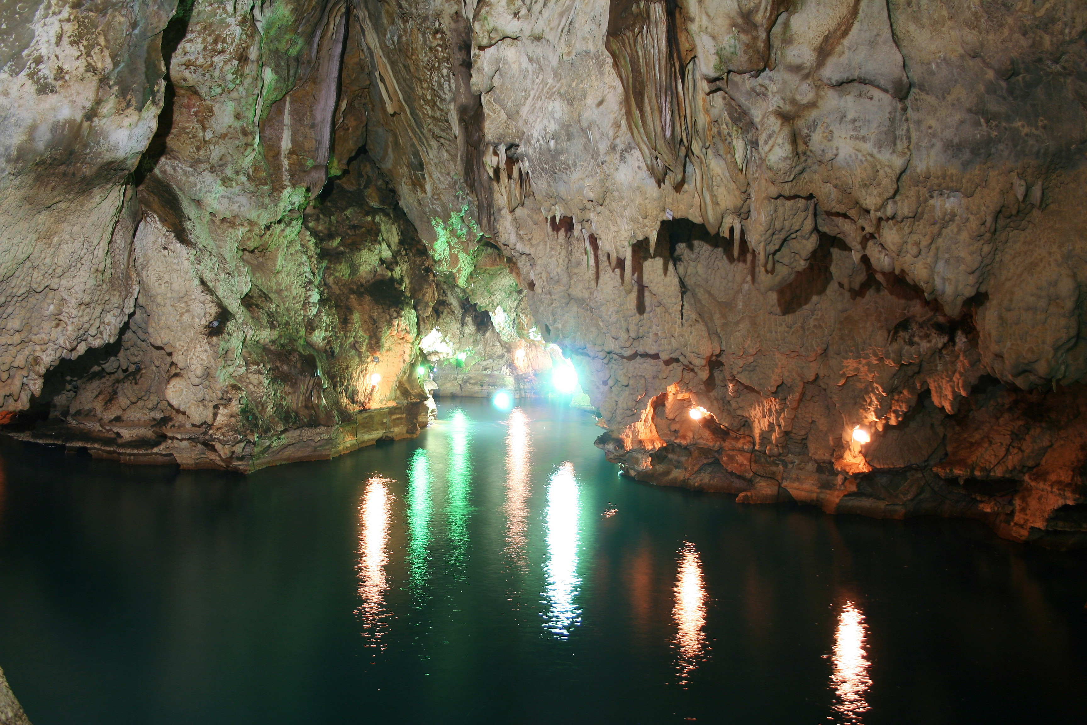 Sahoolan Cave near Mahabad.